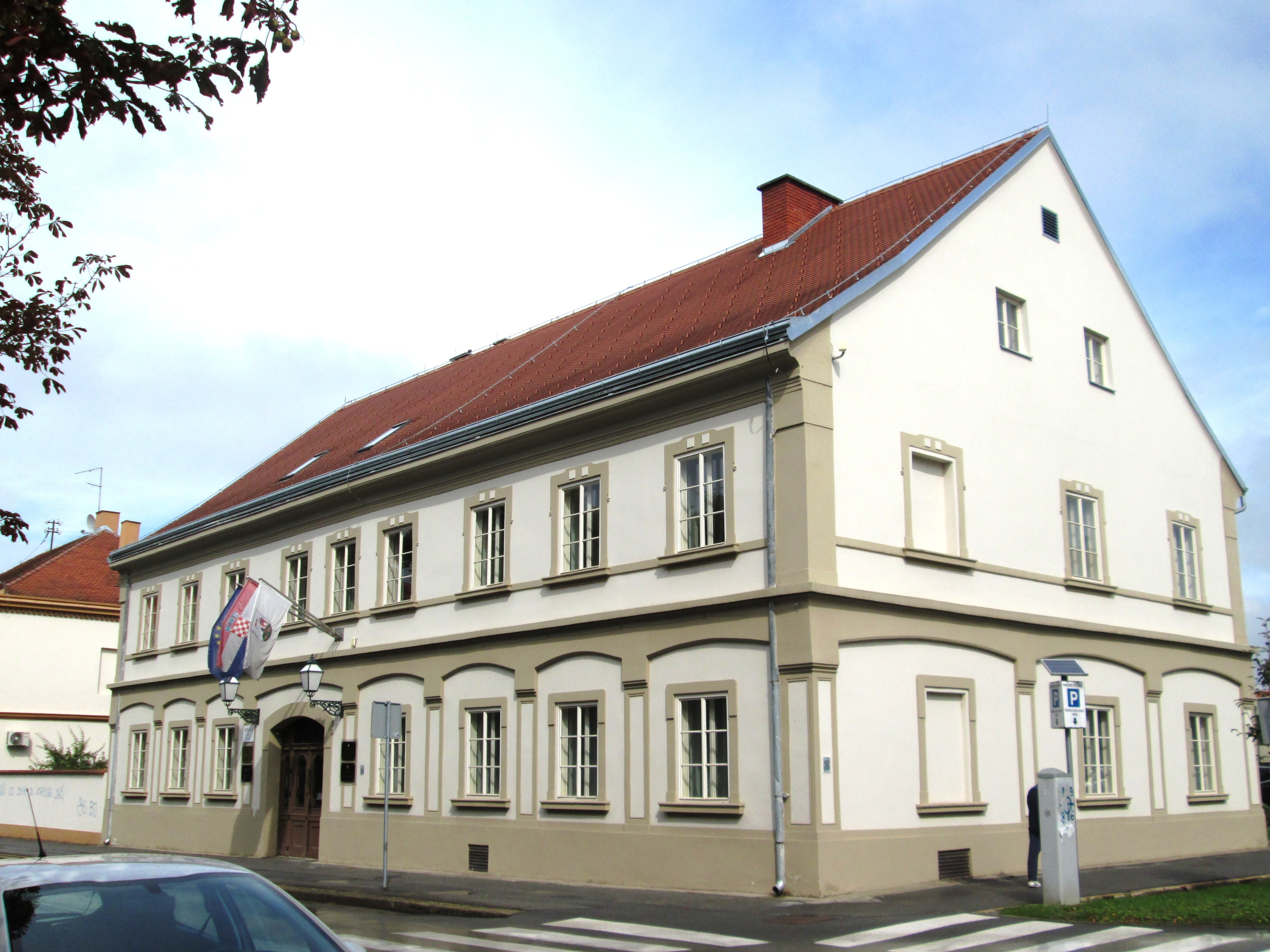 State Archive Building in Bjelovar, Croatia. This is a a photo of a cultural heritage in Croatia with ID:Z-2448